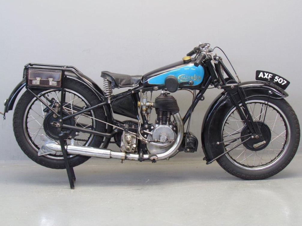 1934 Chater- Lea 1934 Model M 545 545 cc side valve frame # 3262 motor # S 1259-1